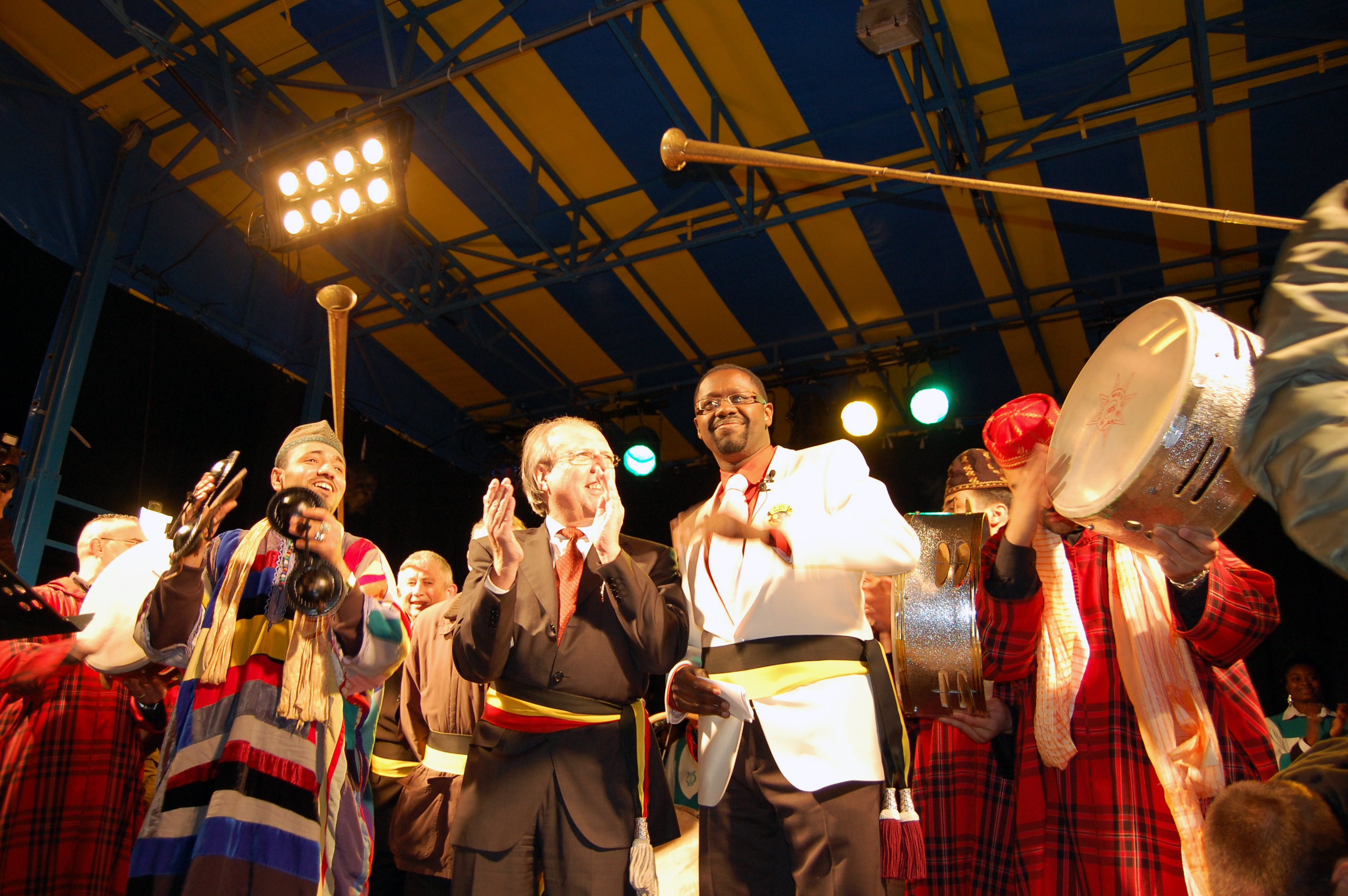 Picture of the multicultural mass wedding event in Sint-Niklaas.